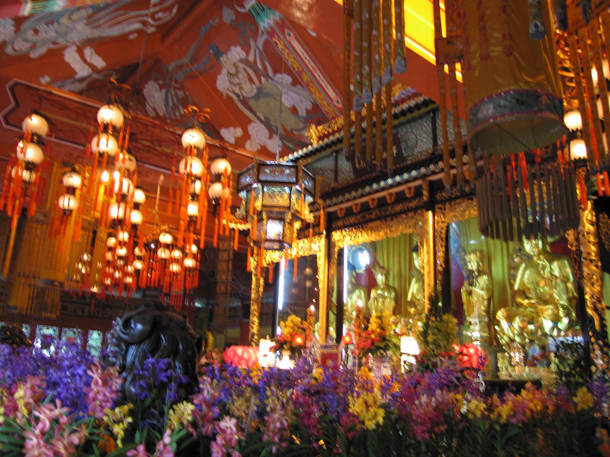 Po Lin monastery interior taken by Dennis Moynihan